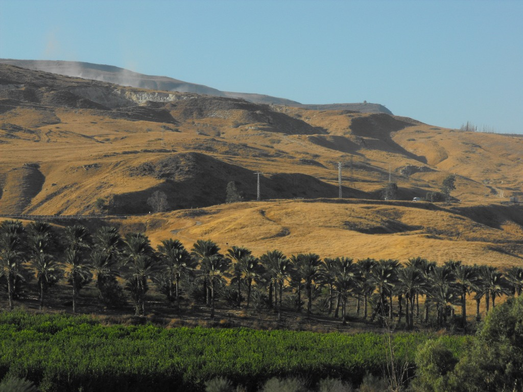 Geography of Israel